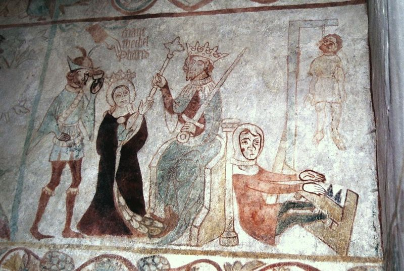 Tirsted Kirke (church)